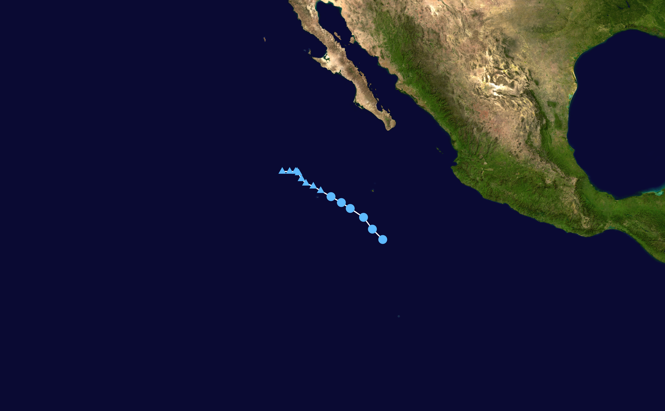 Track map of Tropical Depression Three-E of the 2007 Pacific hurricane season. The points show the location of the storm at 6-hour intervals. The colour represents the storm's maximum sustained wind speeds as classified in the Saffir–Simpson scale (see below), and the shape of the data points represent the nature of the storm, according to the legend below. Saffir–Simpson scale Tropical depression≤38 mph≤62 km/h Category 3111–129 mph178–208 km/h Tropical storm39–73 mph63–118 km/h Category 4130–156 mph209–251 km/h Category 174–95 mph119–153 km/h Category 5≥157 mph≥252 km/h Category 296–110 mph154–177 km/h Unknown Storm type Tropical cyclone Subtropical cyclone Extratropical cyclone / Remnant low / Tropical disturbance / Monsoon depression